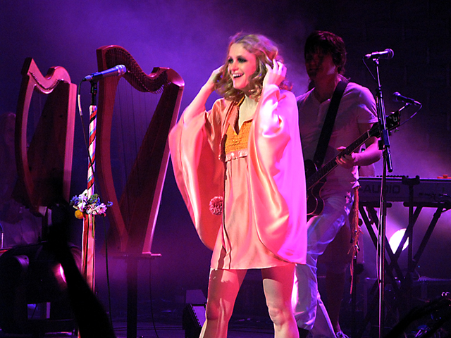 Goldfrapp at Royal Festival Hall, Friday 18th April 2008